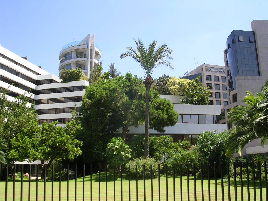 Achrafieh neighbourhood